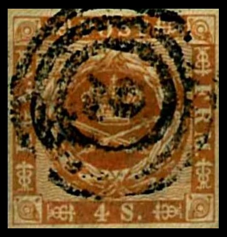 Denmark 1854, 4s used Catalgue: Sc. 4